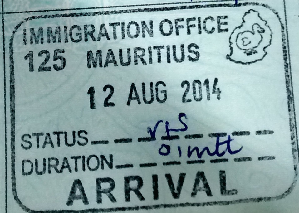 Mauritius Arrival Stamp